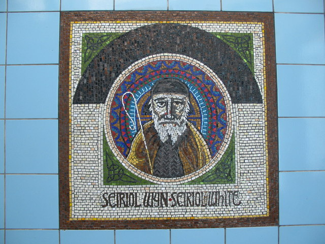 Seiriol Wyn A view looking to the south towards one of the mosaics at the western end of the Celtic Gateway bridge between the town centre and the ferry terminal. The mosaics depict two Welsh saints, St. Cybi from Holy Island, and St. Seiriol from Penmon. Legend has it that they often met in the centre of Anglesey, and in doing so, St Cybi became tanned as he was always walking towards the sun, while St. Seiriol stayed white, as he always had his back to the sun.